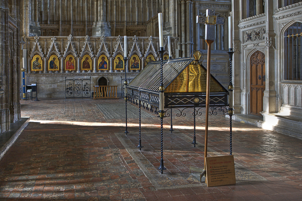 St Swithun's memorial shrine at Winchester Cathedral with Fedorev's iconostasis on the retroquire behind